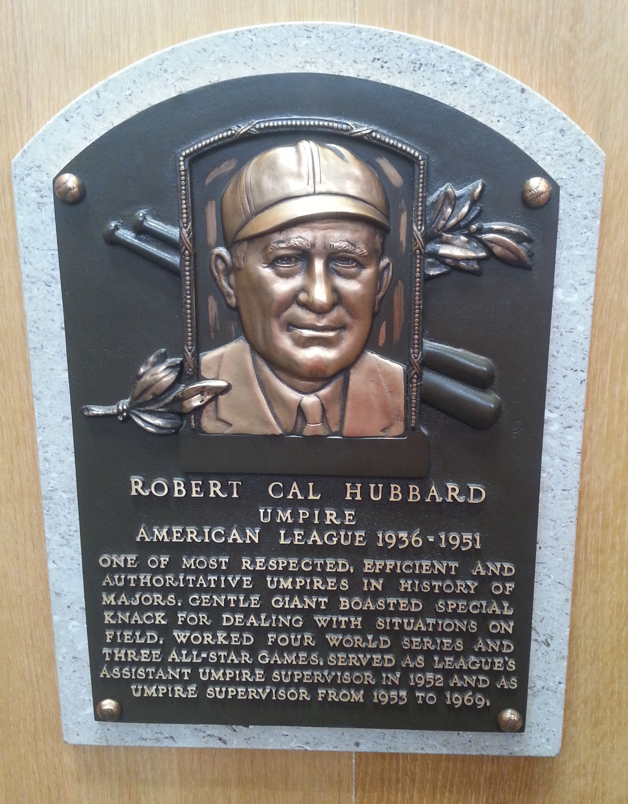 Cal Hubbard plaque in the National Baseball Hall of Fame